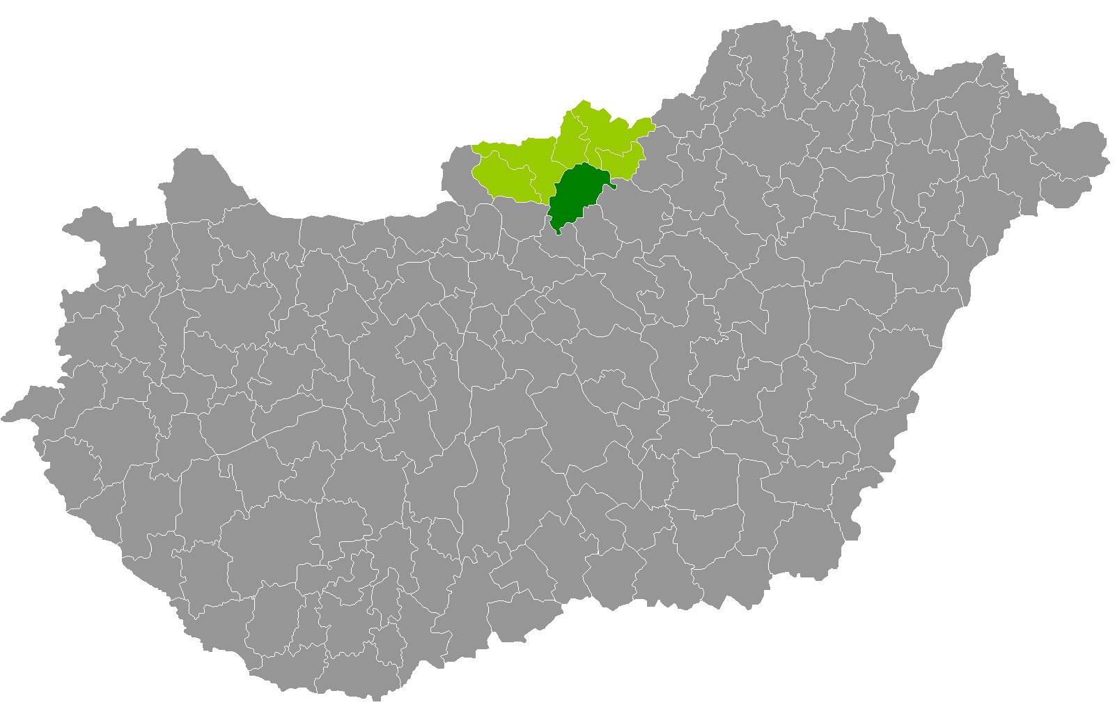 Location of Pásztó District, Nógrád, Hungary